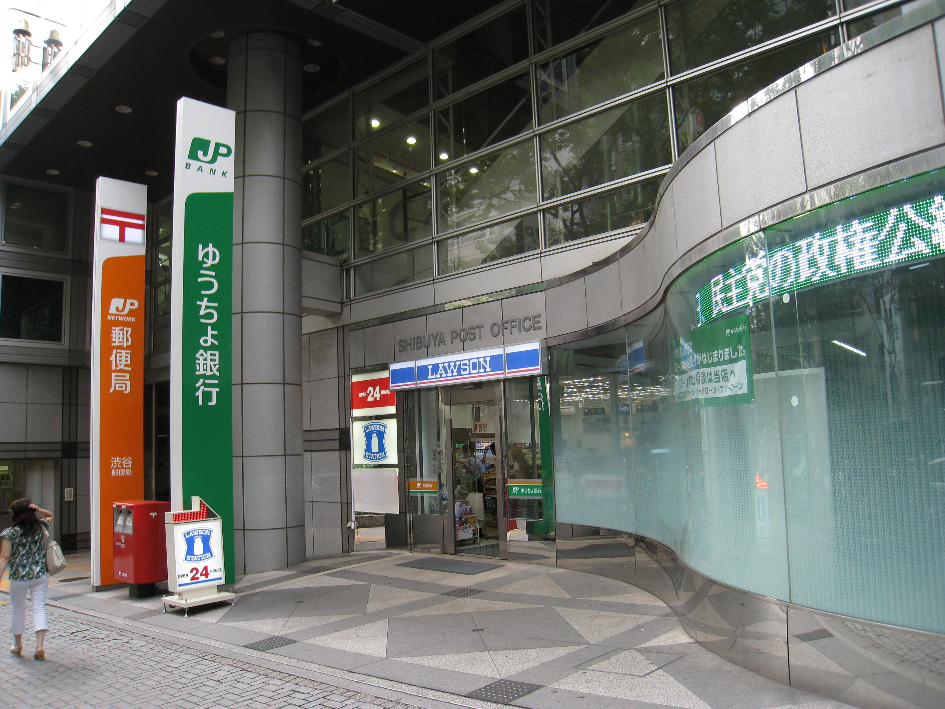 Shibuya postoffice. Shibuya-ku, Tokyo, Japan